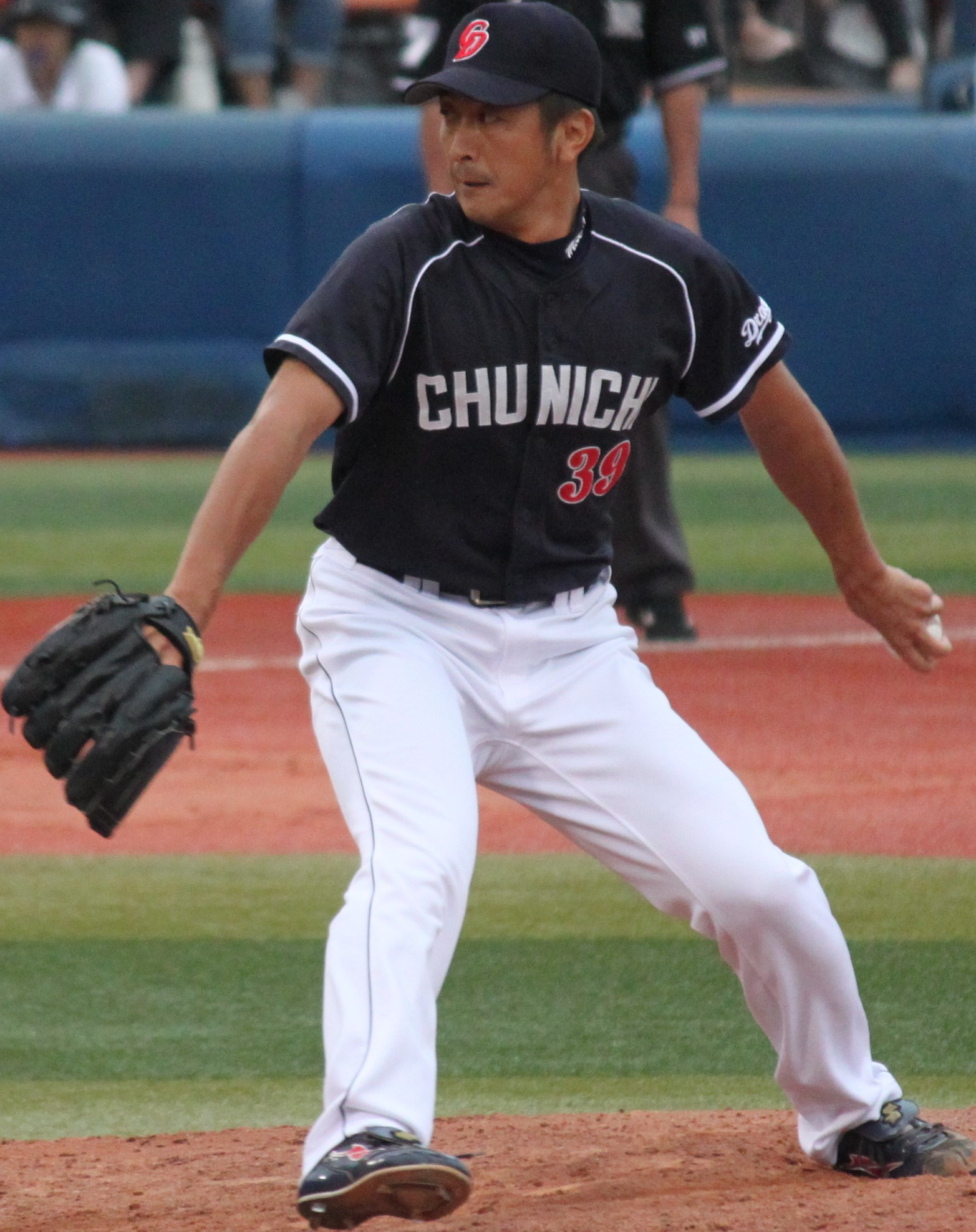 Koji Mise, pitcher of the Chunichi Dragons, at Yokohama Stadium.